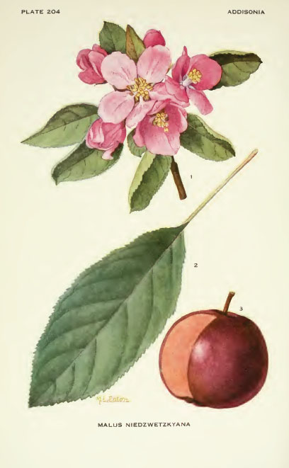 Niedzwietsky Apple